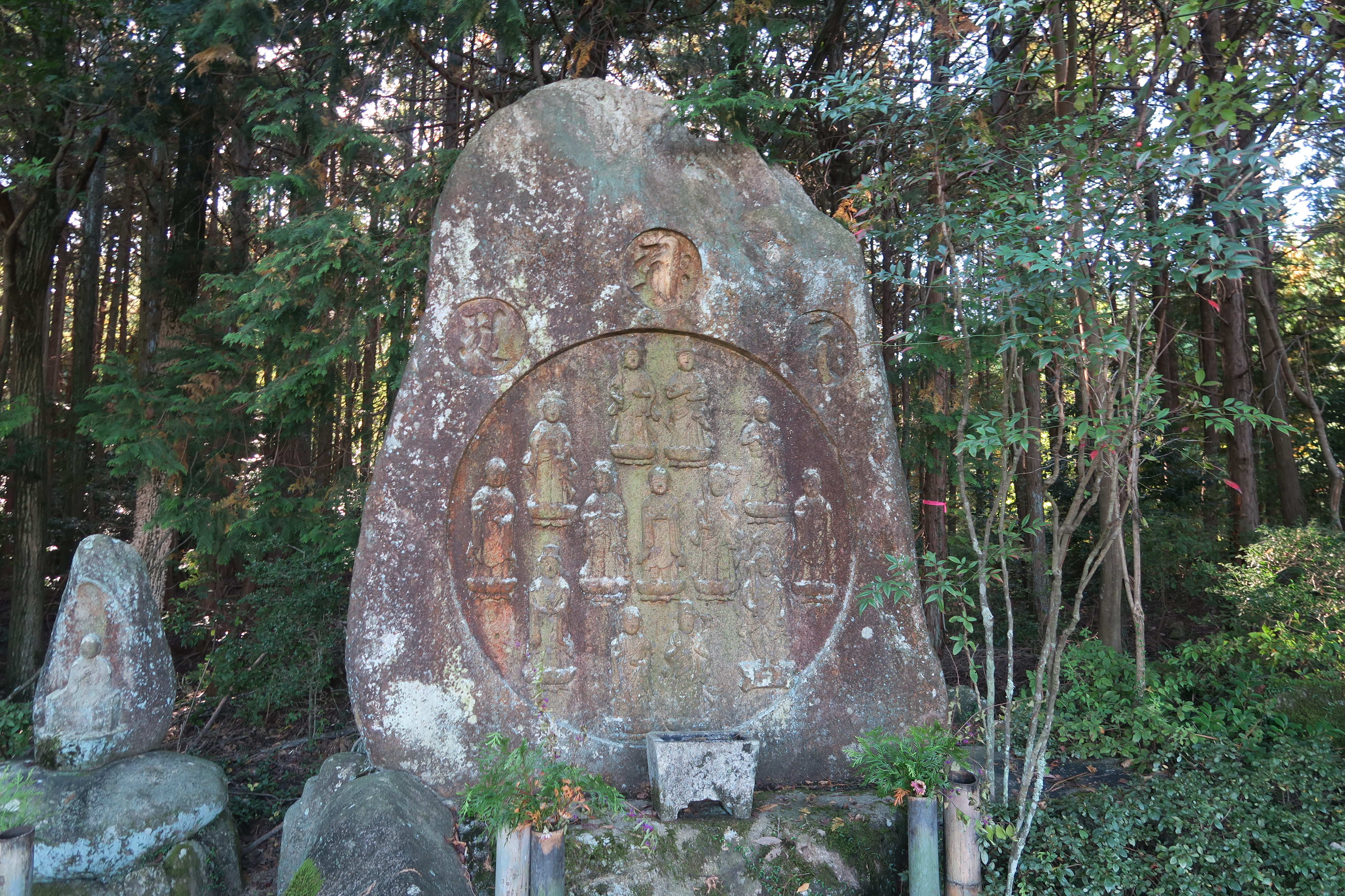 Iwasaka Thirteen Buddhas, Koka, Shiga